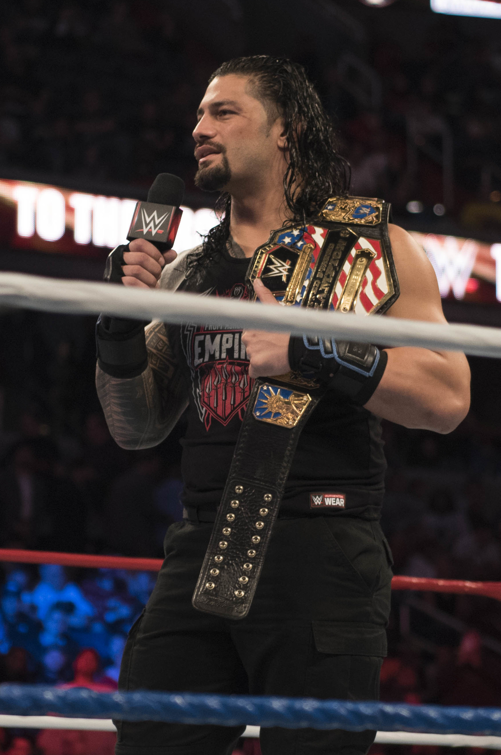 This image shows professional wrestler Roman Reigns performing at the 14th annual Tribute to the Troops event in December 2016.